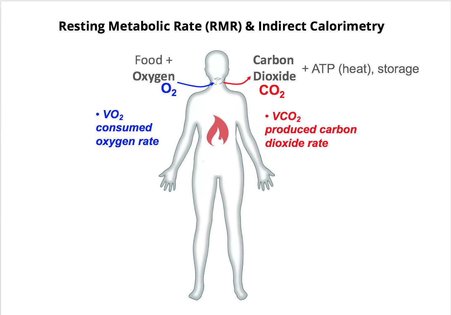 How oxygen and carbond dioxide relate to human energy expenditure